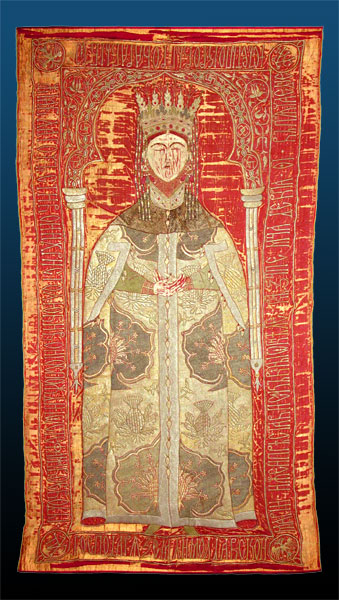 Maria Asanina Palaiologhina (better known as Maria de Mangop), Princess consort of Moldavia